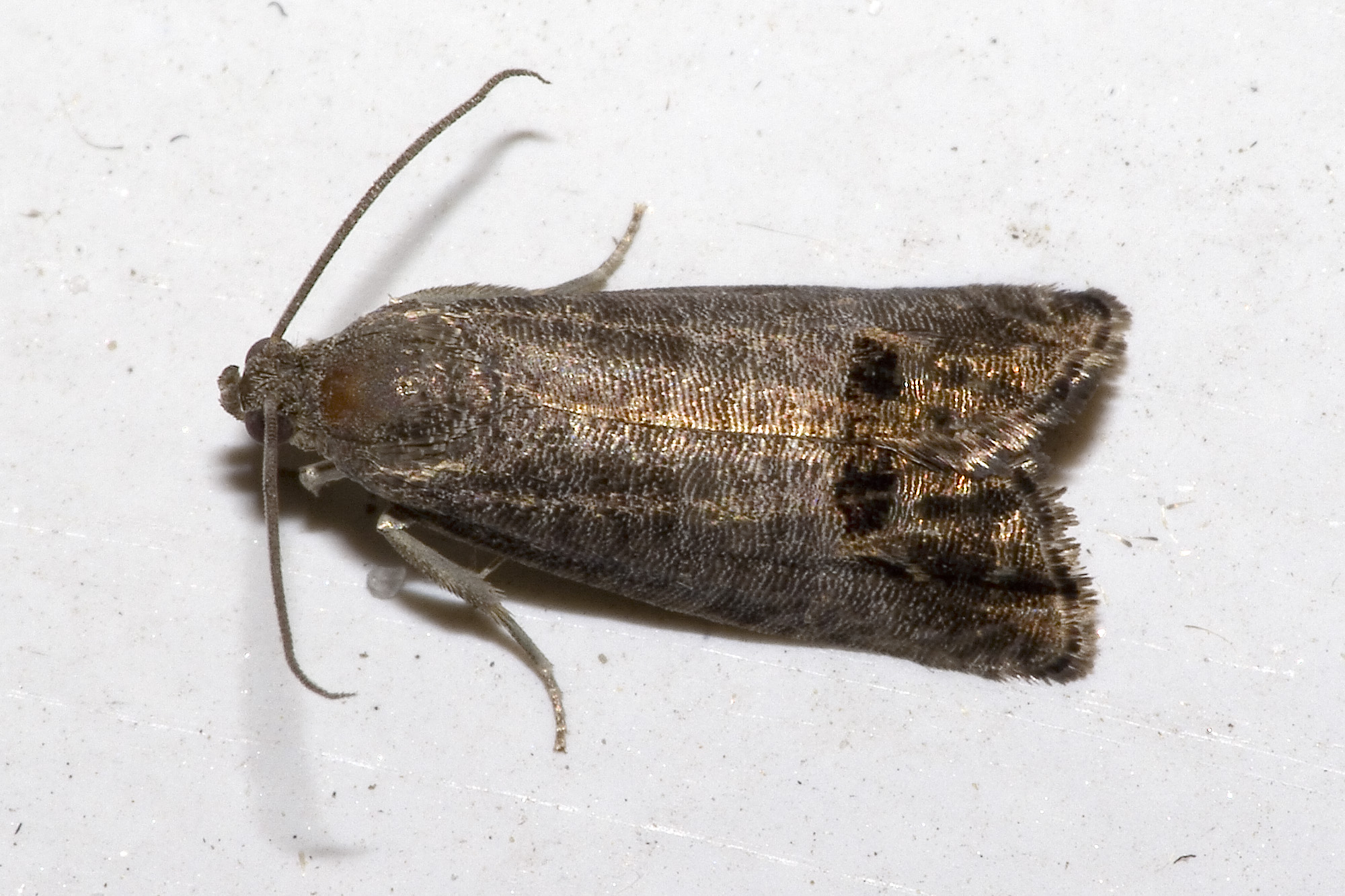 Codling moth